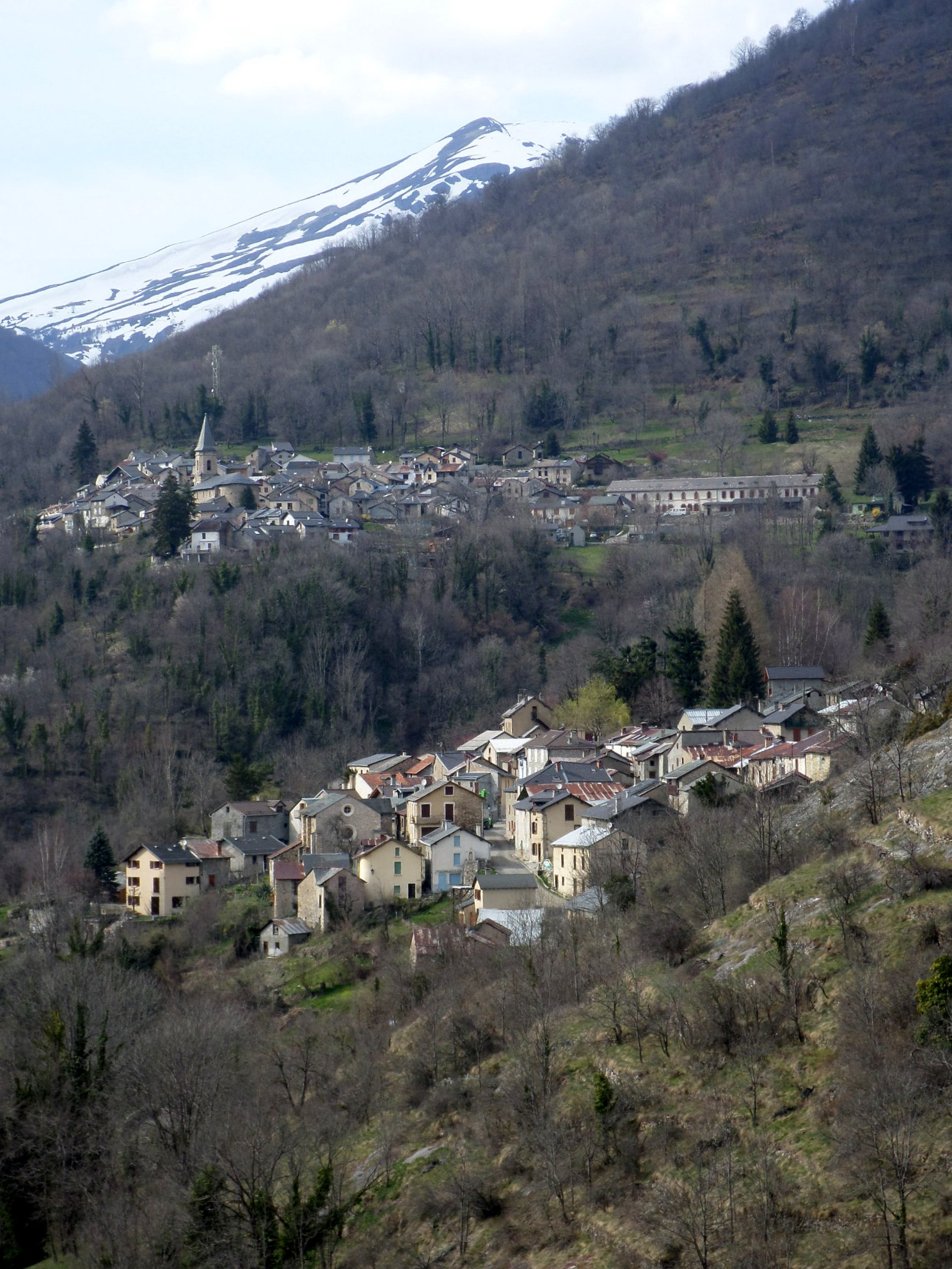 Hamlet of Suc-et-Sentenac, Dept. Ariège